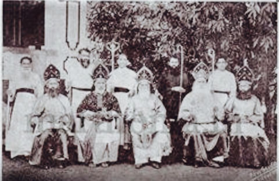 Group photo taken during the ordinations of Juhanon Mar Thimathious (Later Marthoma XVIII Juhanon marthoma) and Mathews Mar Athanasious by Abraham Marthoma (Marthoma XVII and Metropolitan of Thozhiyoor Kuriakose mar Korilos